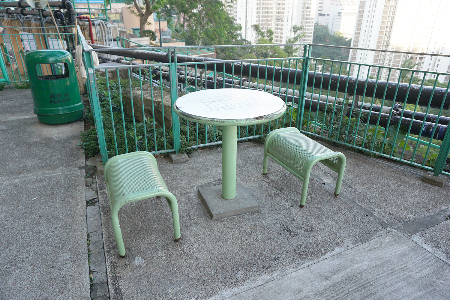 Hing Man Estate in Chai Wan, Hong Kong.